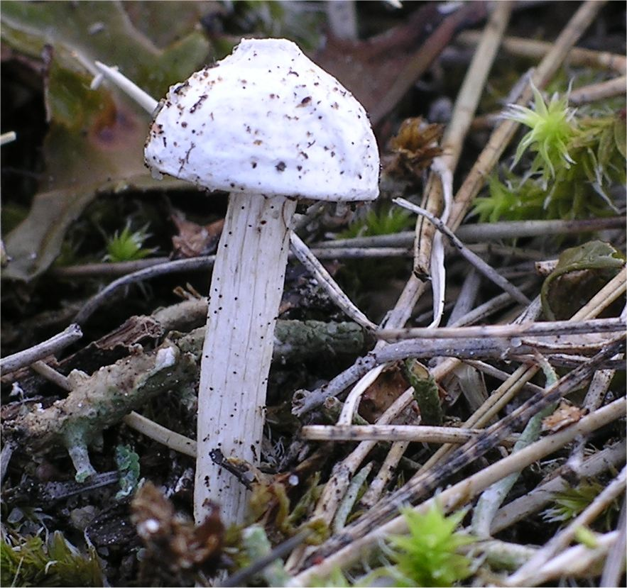 Tulostoma kotlabae, found in Gotland, Sweden